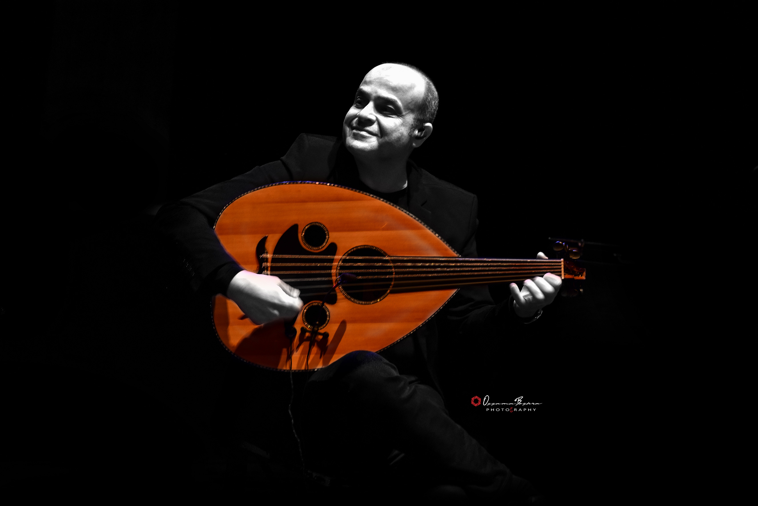 Photo by Ossama Boshra